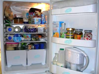 Photo of a typical refrigerator with its door open.